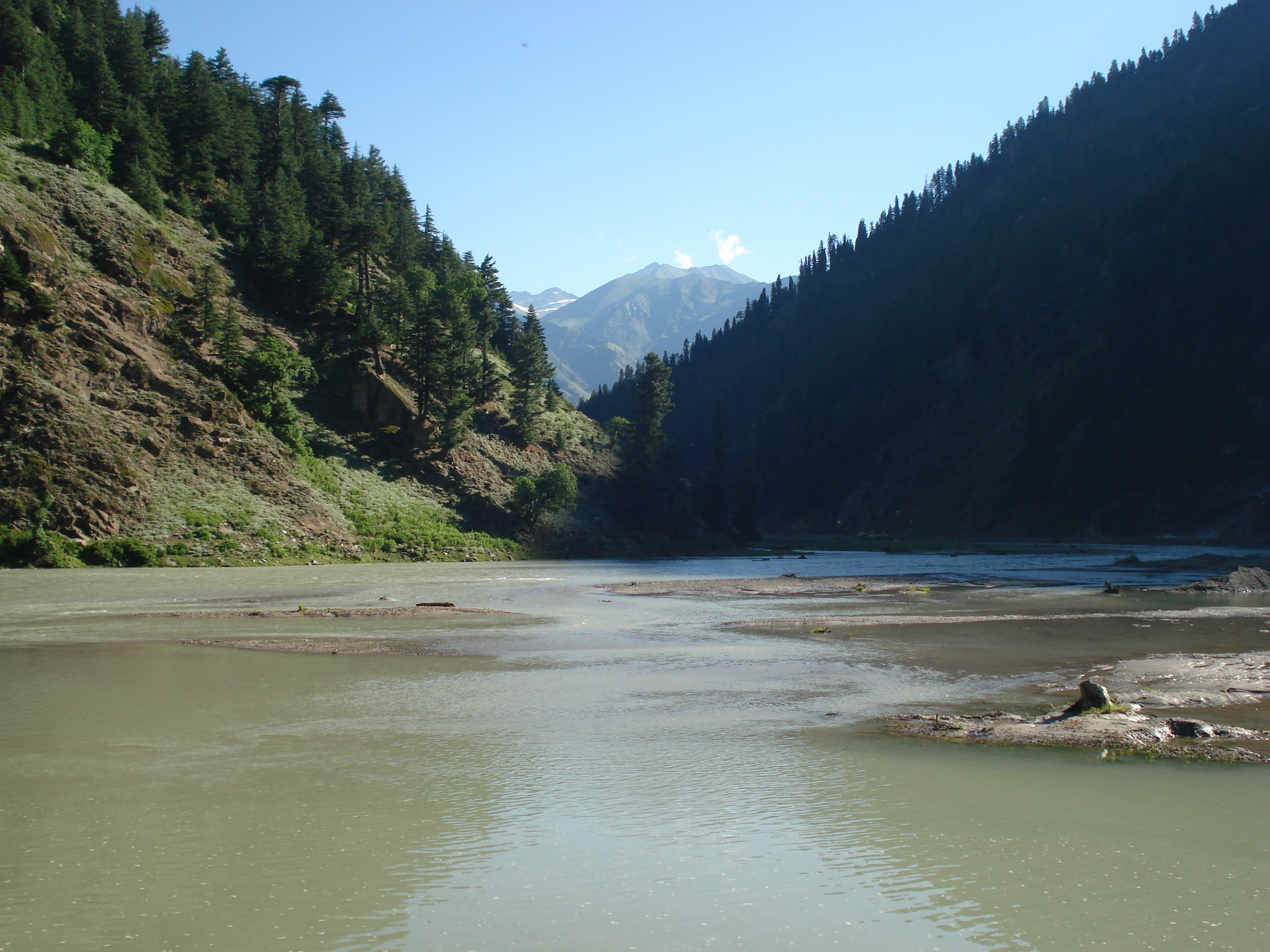 The Kunhar River, near the village of Naran, Kaghan Valley, Khyber Pakhtunkhwa-NWFP, Pakistan in June